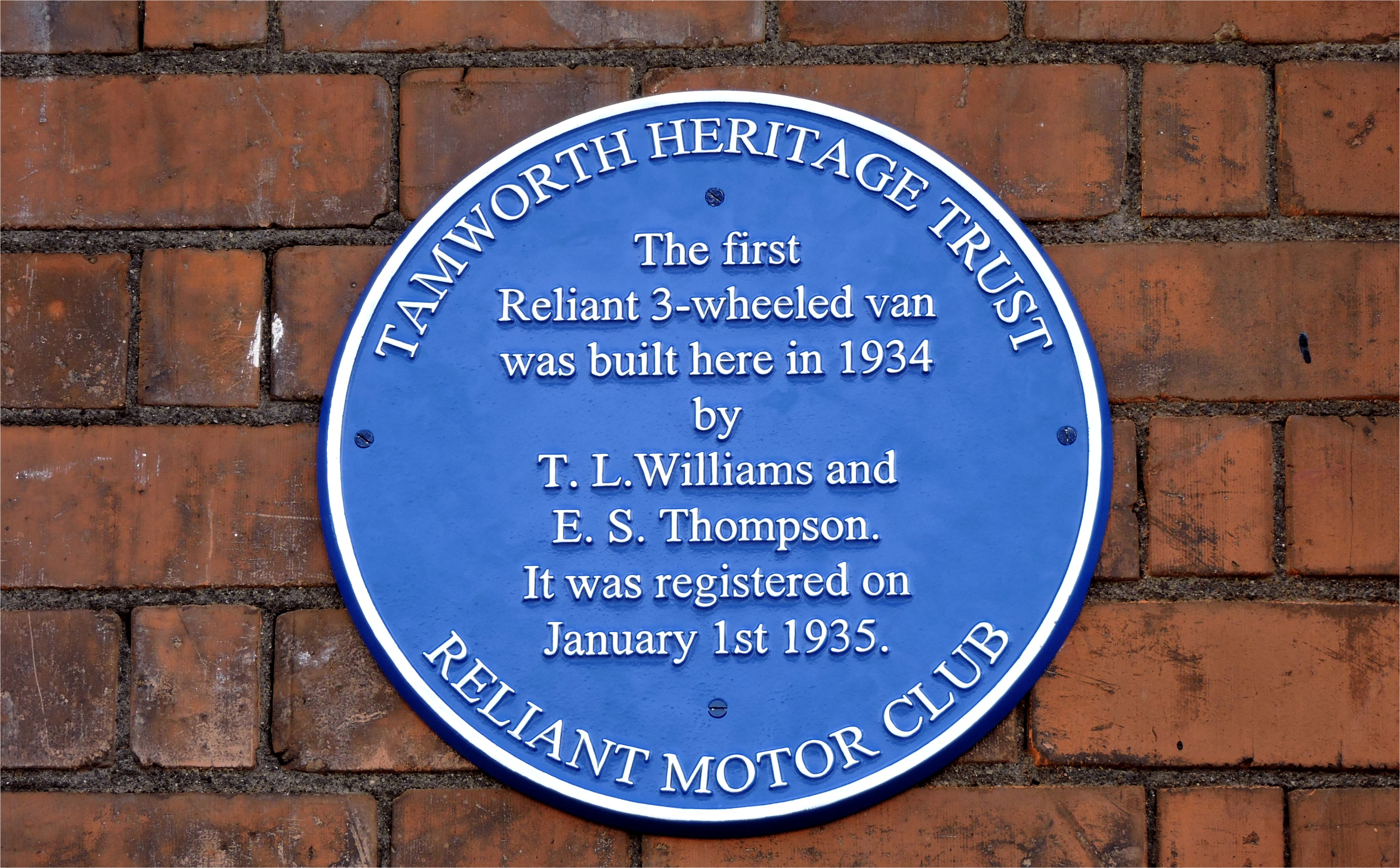 Blue Plaque unveiled on July 8th 2017 to honor Reliant's founders and mark the birth place of the Reliant.